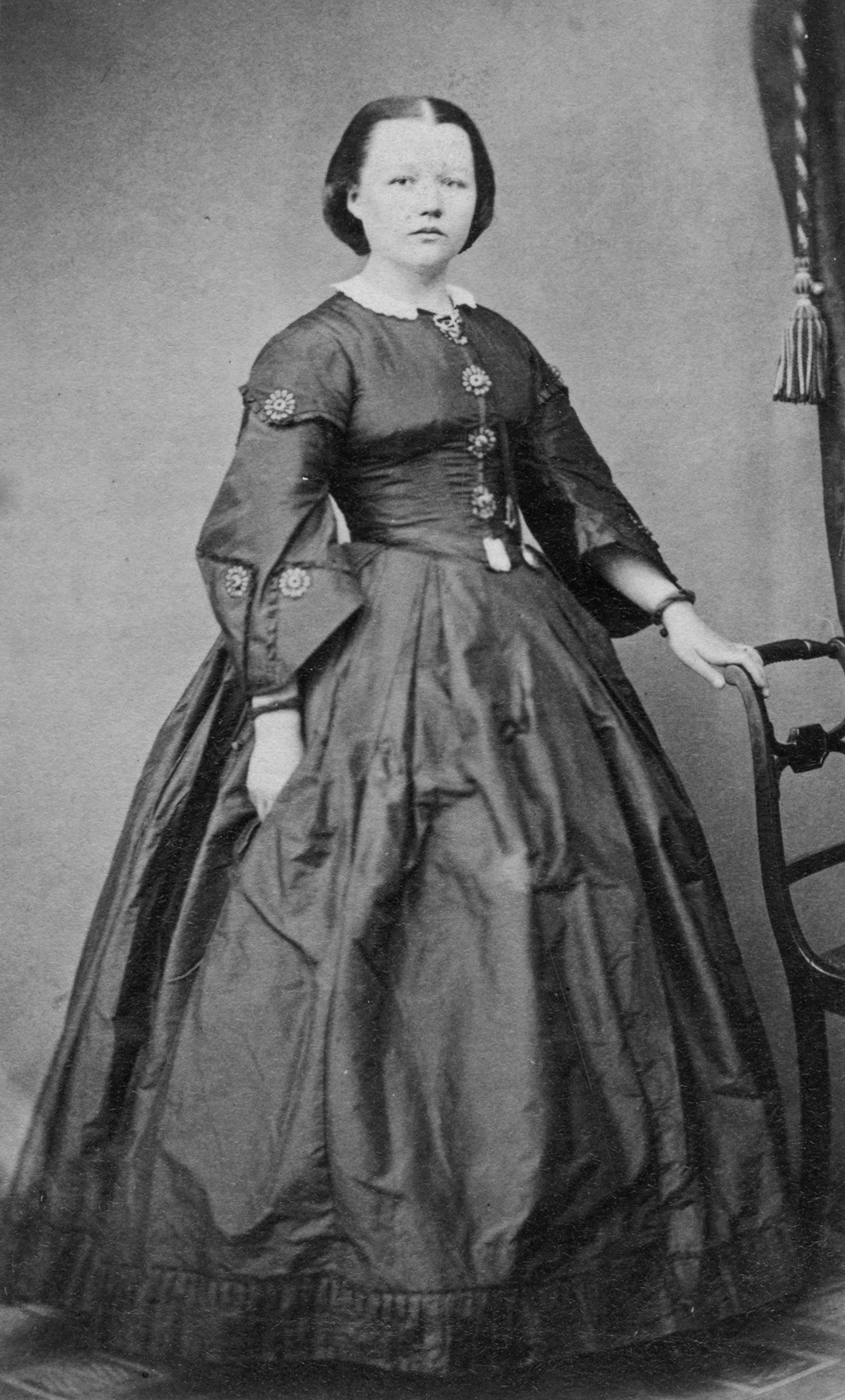 Swedish educator Maria Henschen (1840-1927)